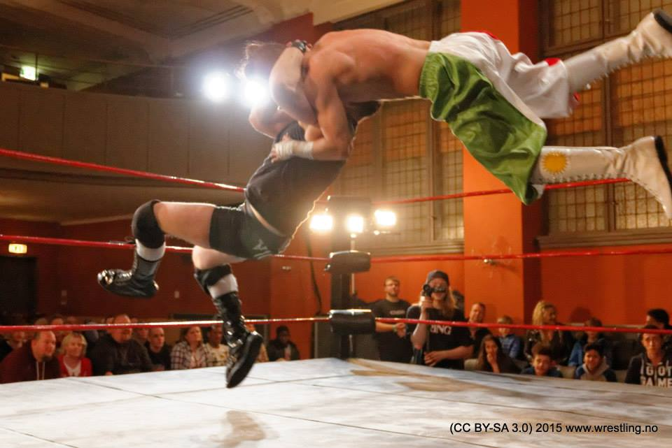 Norwegian Wrestling